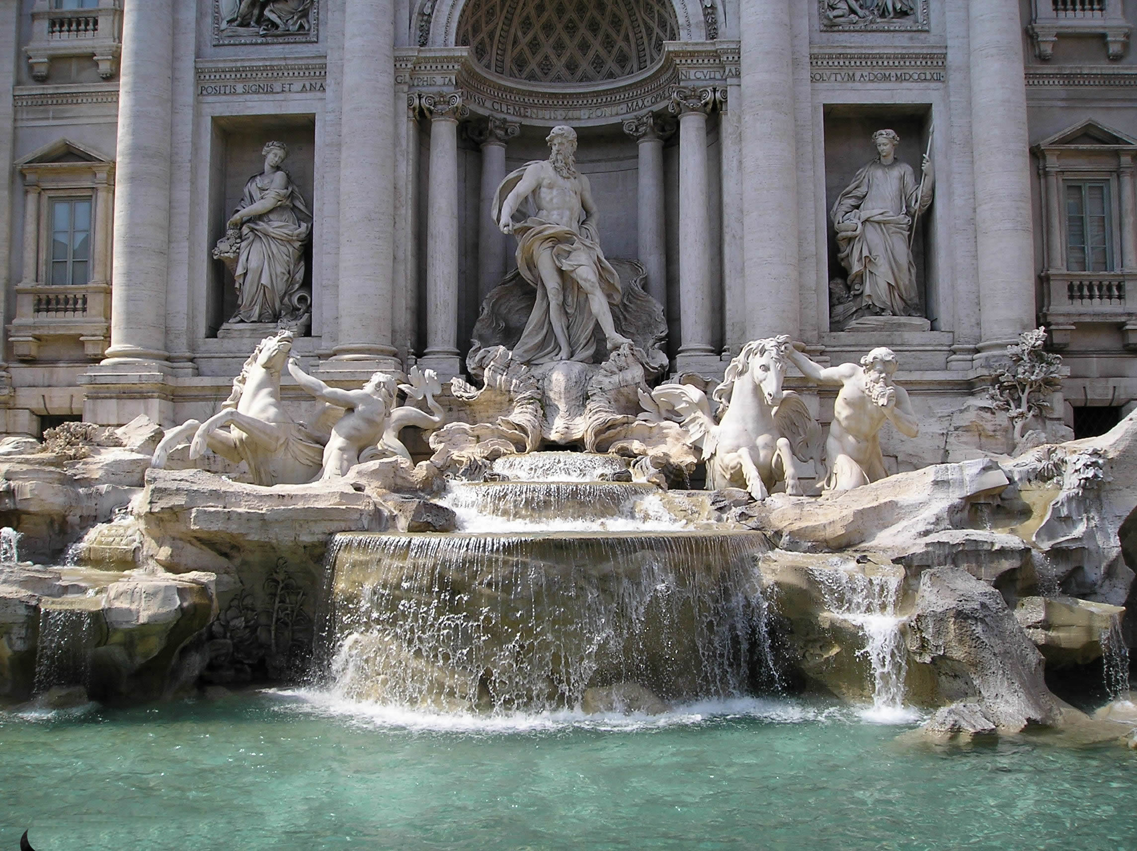 Trevi Fountain in Rome, Italy